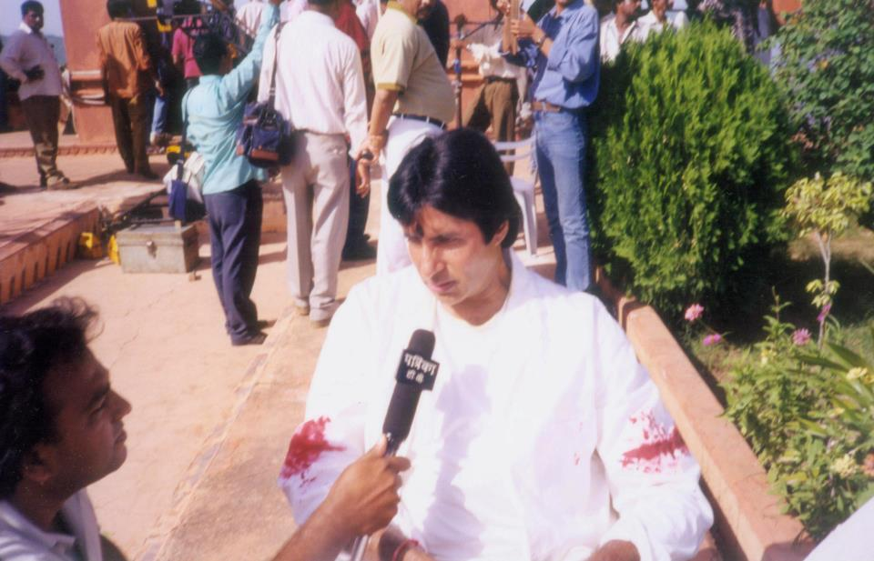 During the shooting of Lal Baadshah in Jaipur on the famous tall tower at jaigargh fort aka Victory fort.